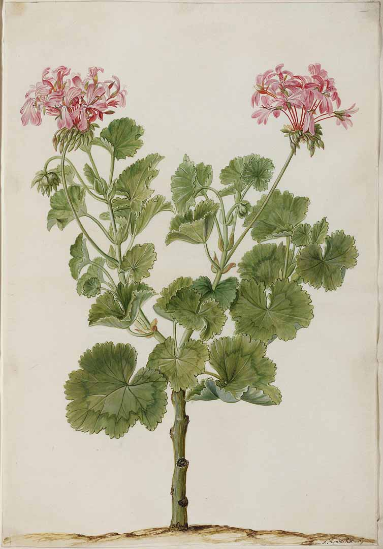 Pelargonium zonale